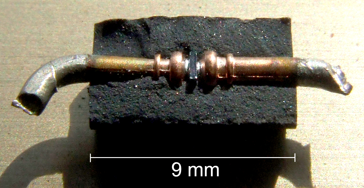 Section of a Schottky diode (1N5822)